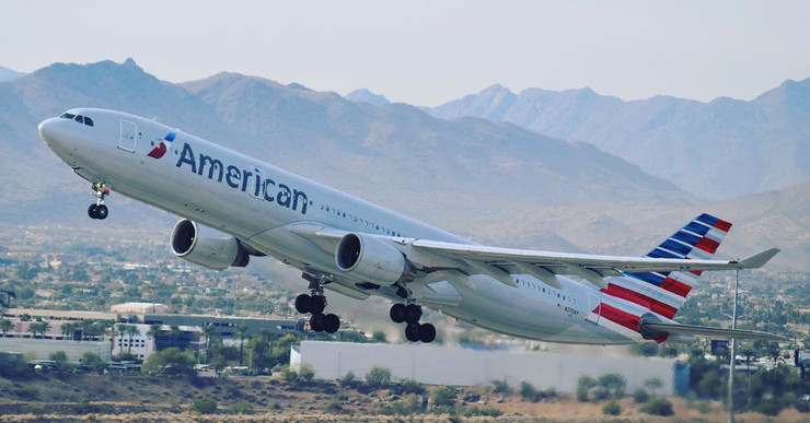 American Airlines Airbus A330 takes off out of Phoenix